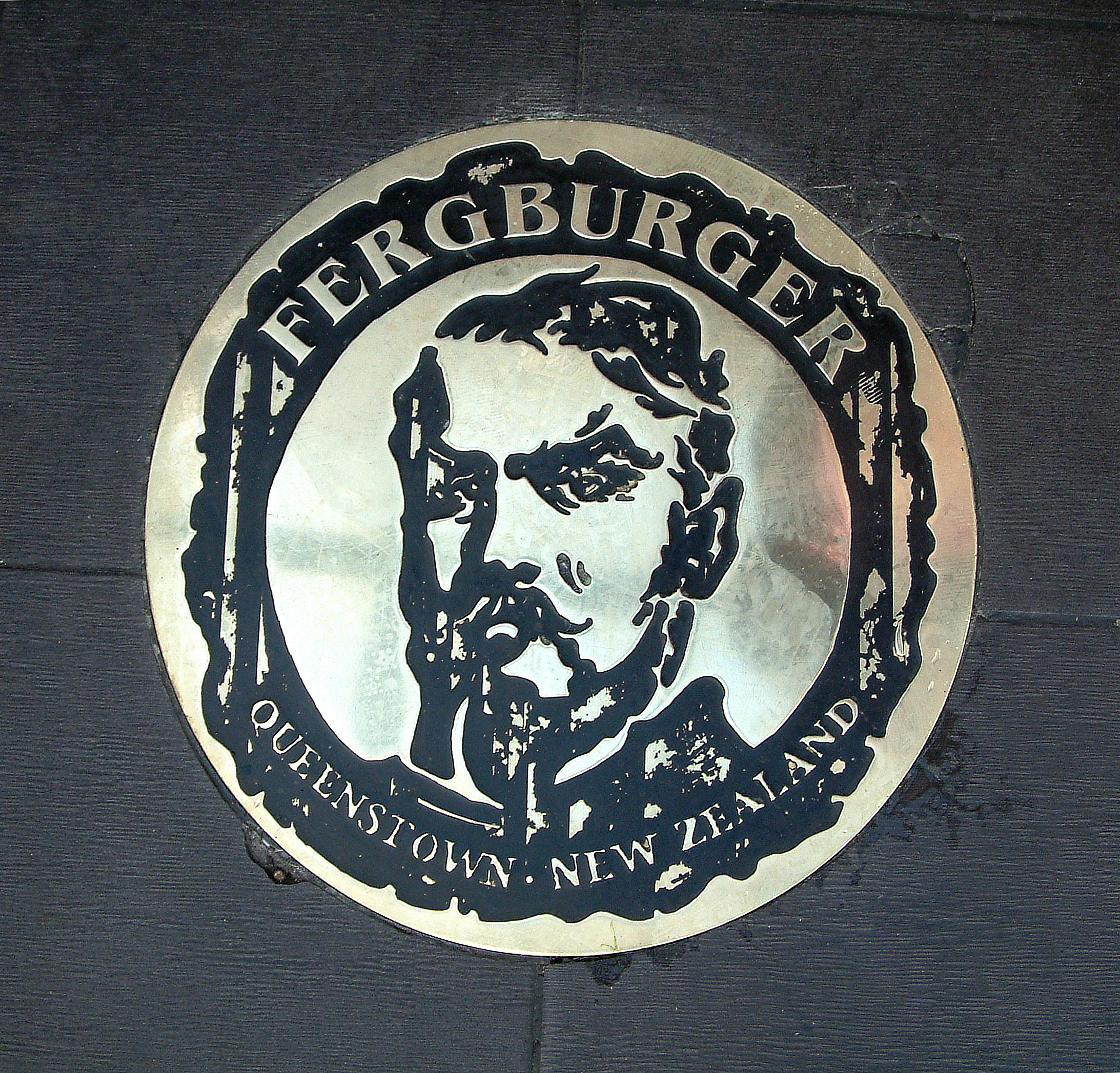 Logo of Fergburger at the entrance to store in Queenstown, New Zealand.